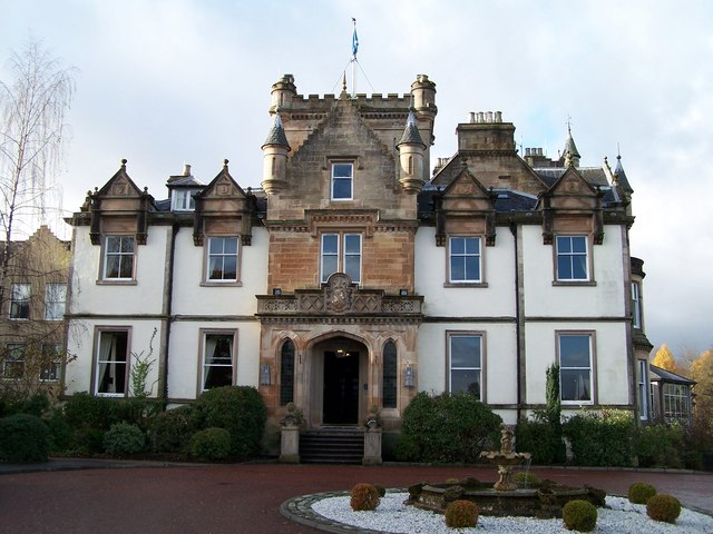 Cameron House Hotel, Loch Lomond - 1. Described as a former 'Stylish Baronial Hall' ... now extended into a superb country hotel. 1599413 1599427 1599591 1599594 1599598 1599601 1599608 1599615 1599621 1598489